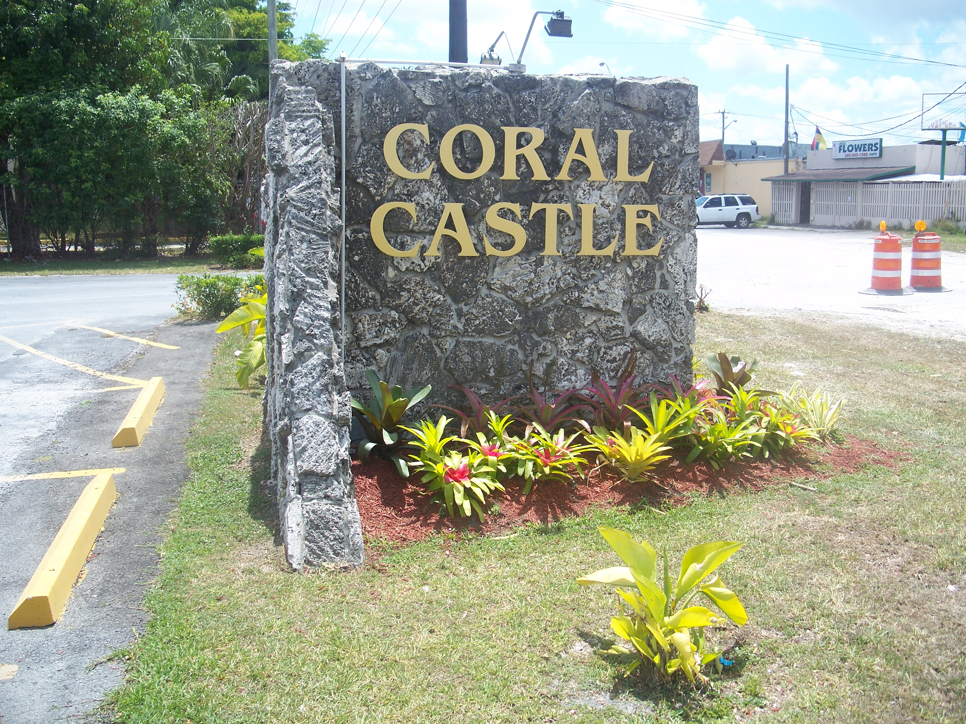 Homestead, Florida: Coral Castle: Sign